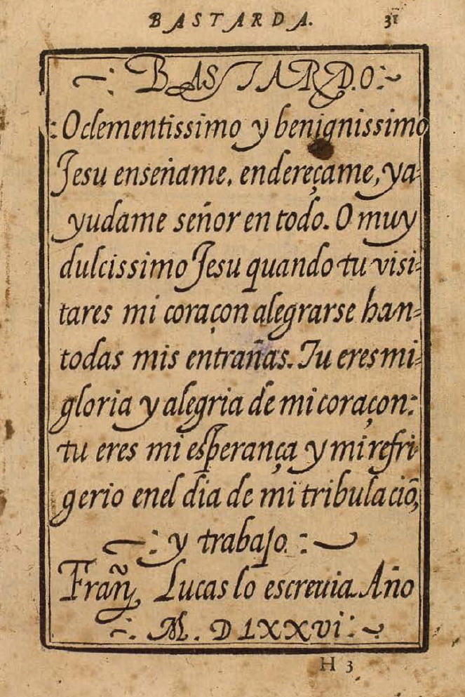 Specimen from Francisco Lucas, in the 1608 edition. Seventh plate, 32nd folio.